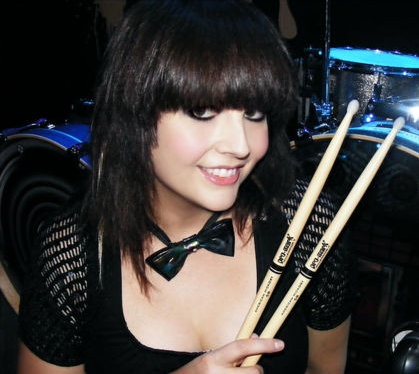 Kitty (Jennifer Dunn)